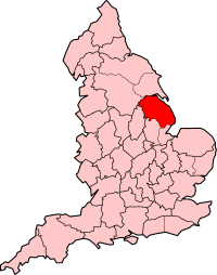 Map showing Lindsey in Lincolnshire